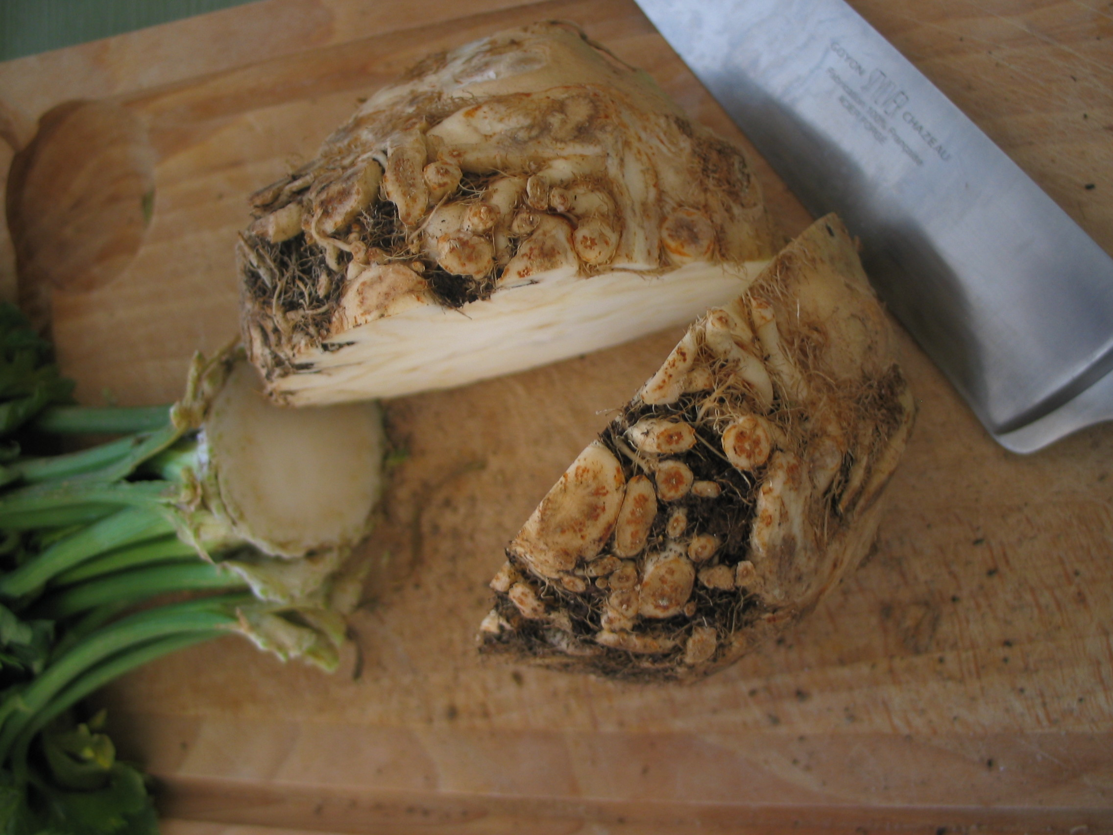 Celeriac